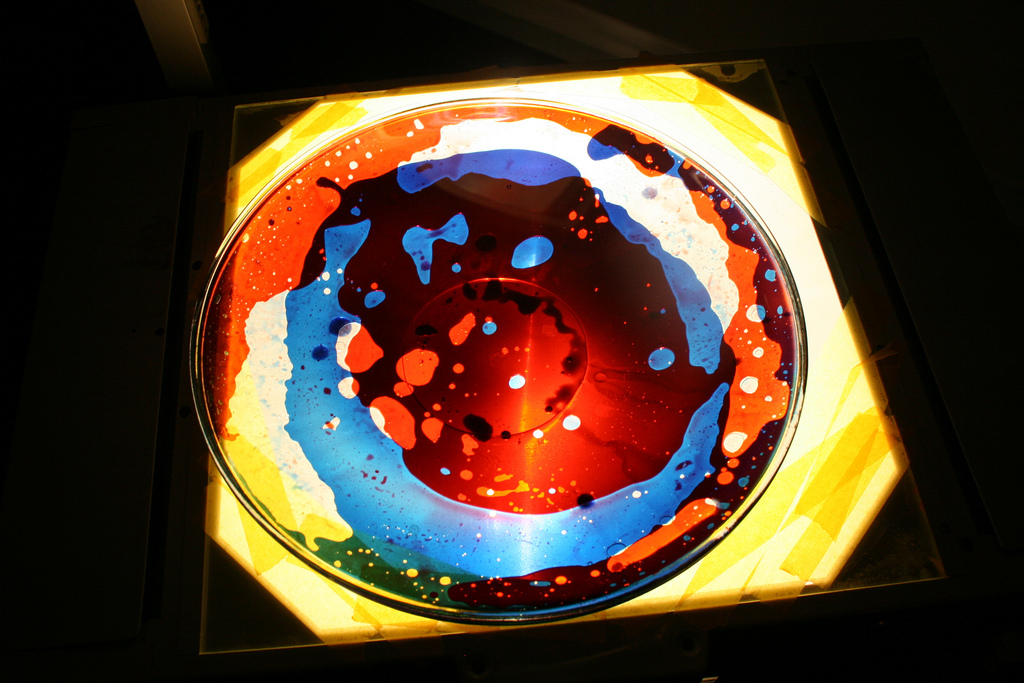 Ölprojektion A Projection using coloured alcohol and mineral oil. the mixture is pressed between glass plates. if the liquid is heated, the bubbles will start moving and blending.